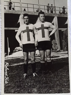 Paolo Marcora playing for Rappresentativa Lombarsa